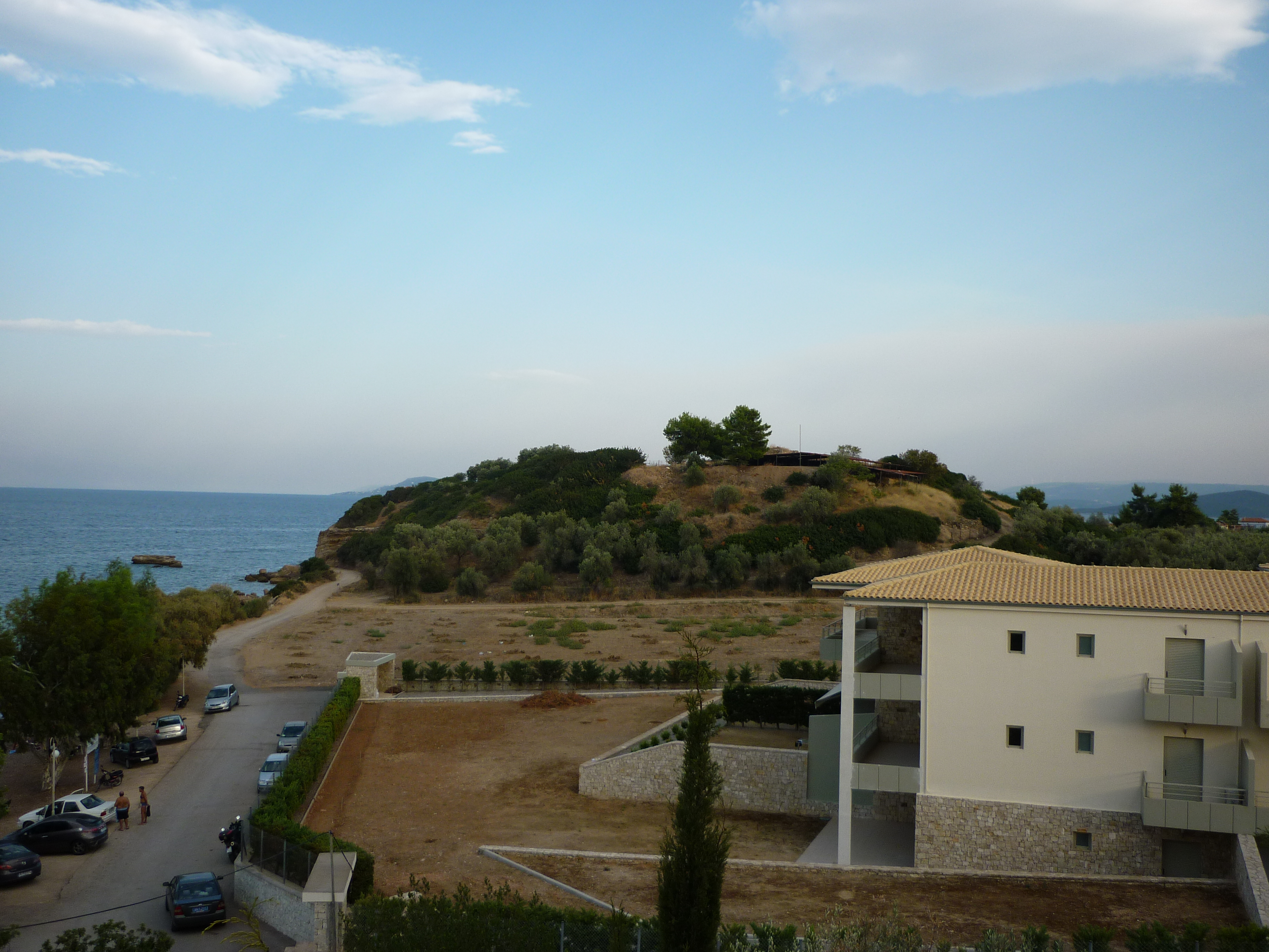 Livanates, Greece: Pyrgos hill with archaeological site of ancient Kynos.